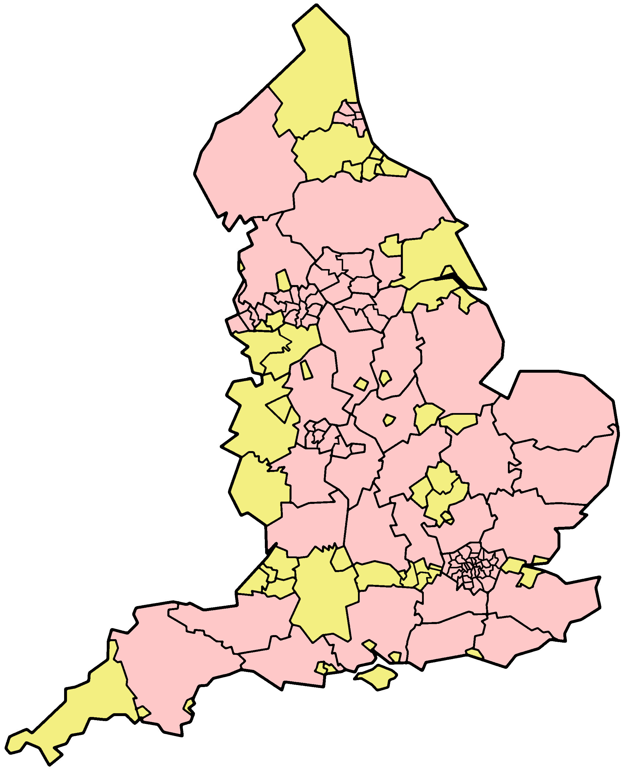 Map showing top-level local authorities in England, effective 1st April 2009. Unitaries in yellow.